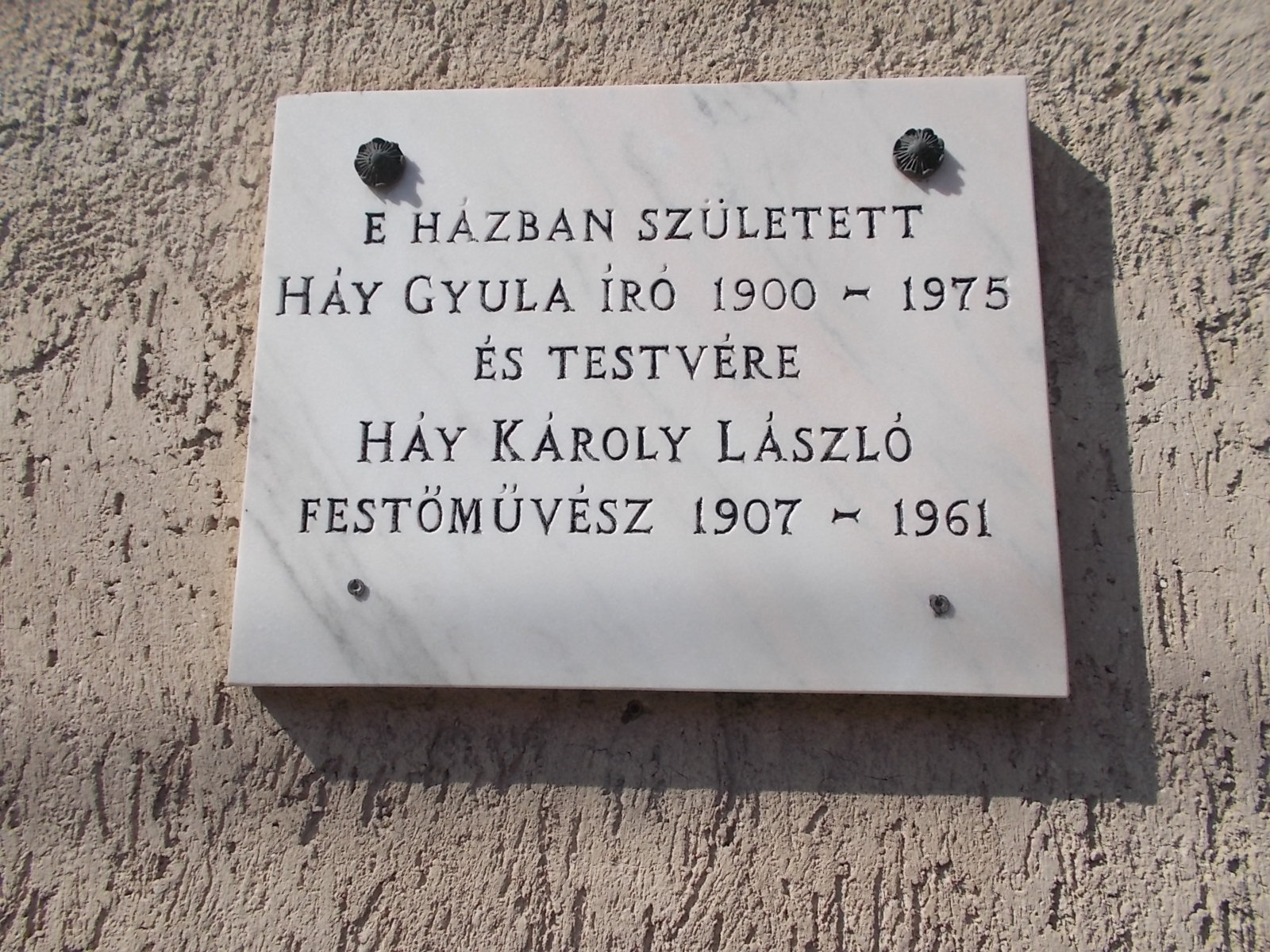 Listed post office. - 8 Szolnoki út, Abony, Pest County, Hungary.